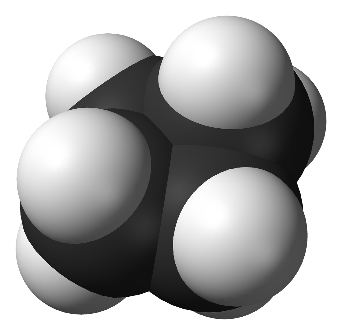 Space-filling model of the cyclobutane molecule in a puckered conformation